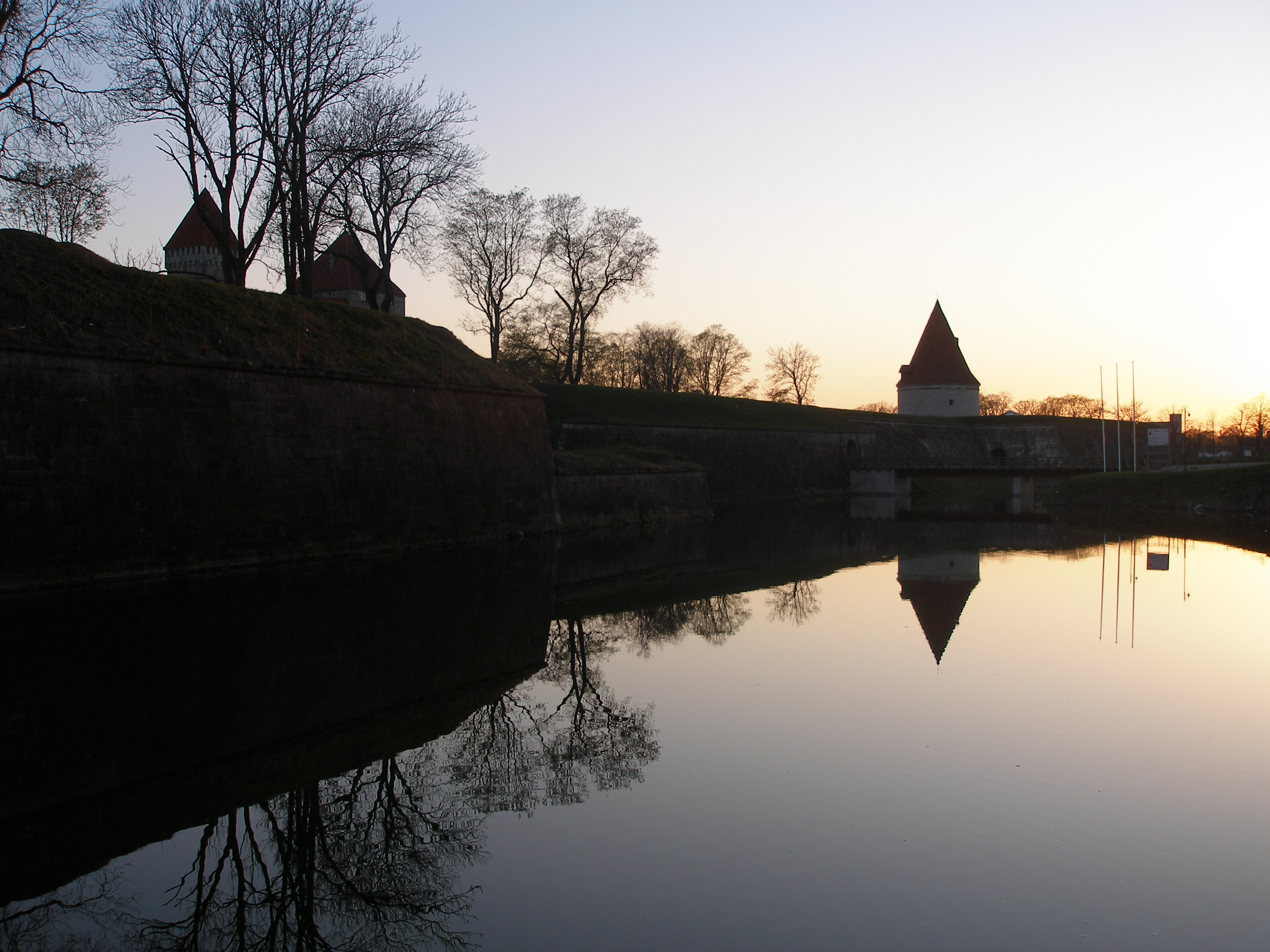 Kuressaare castle towers over the moat at dusk